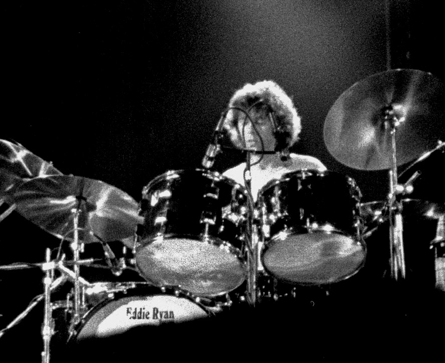 Dire Straits, October 1978, Musikhalle Hamburg